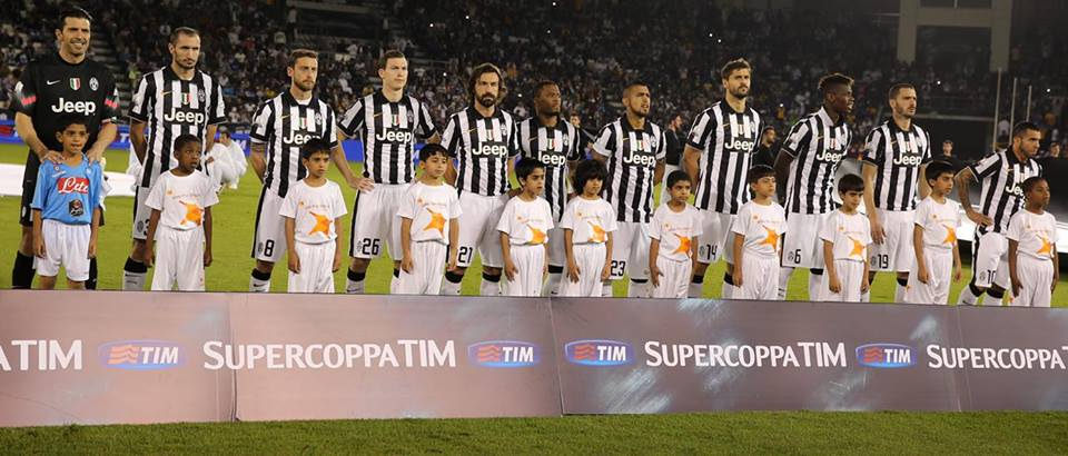 Save the Dream was proud to partner with Aspire Academy and the Qatar Football Association to spread the message of pure sport at the Italian Supercup finals between Juventus and SSC Napoli, held in Doha on December 22nd, 2014. Bianconeri's team; from left to right: G. Buffon (captain), G. Chiellini, C. Marchisio, S. Lichtsteiner, A. Pirlo, P. Evra, A. Vidal, F. Llorente, P. Pogba, L. Bonucci, C. Tévez.